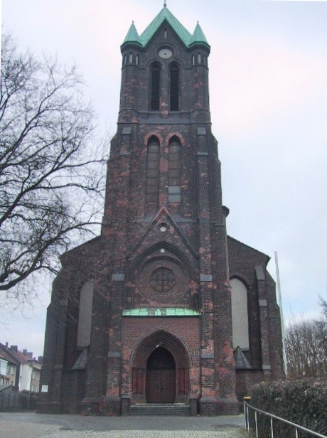 Kirche Herz Jesu, Bochum-Hamme Bochum, North Rhine-Westphalia Photo by Theol, March 2006, GFDL